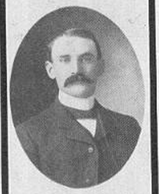 Burton Neill Wilson, Arkansas